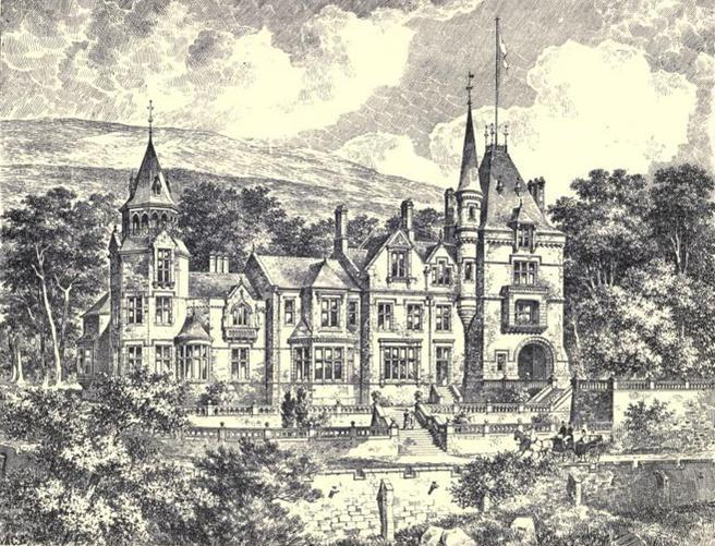 Stenograph of Galtee Castle formally in Co. Tipperary. Ireland